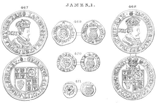 English Jacobean silver coinage, from Edward Hawkins, The Silver Coins of England (1841). By